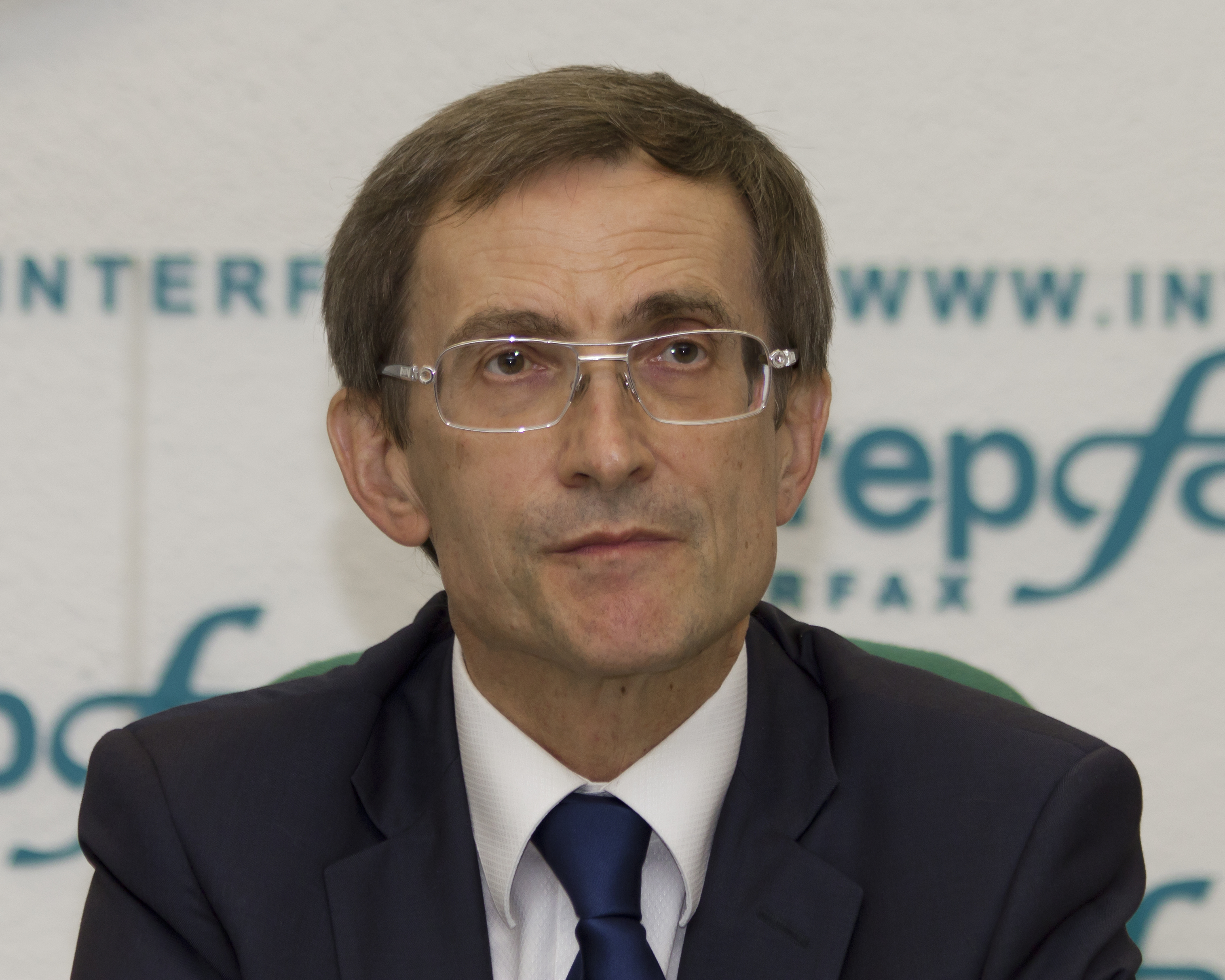 Nikolai Levichev, Russian politician. Taken at Press center of Interfax, Moscow.